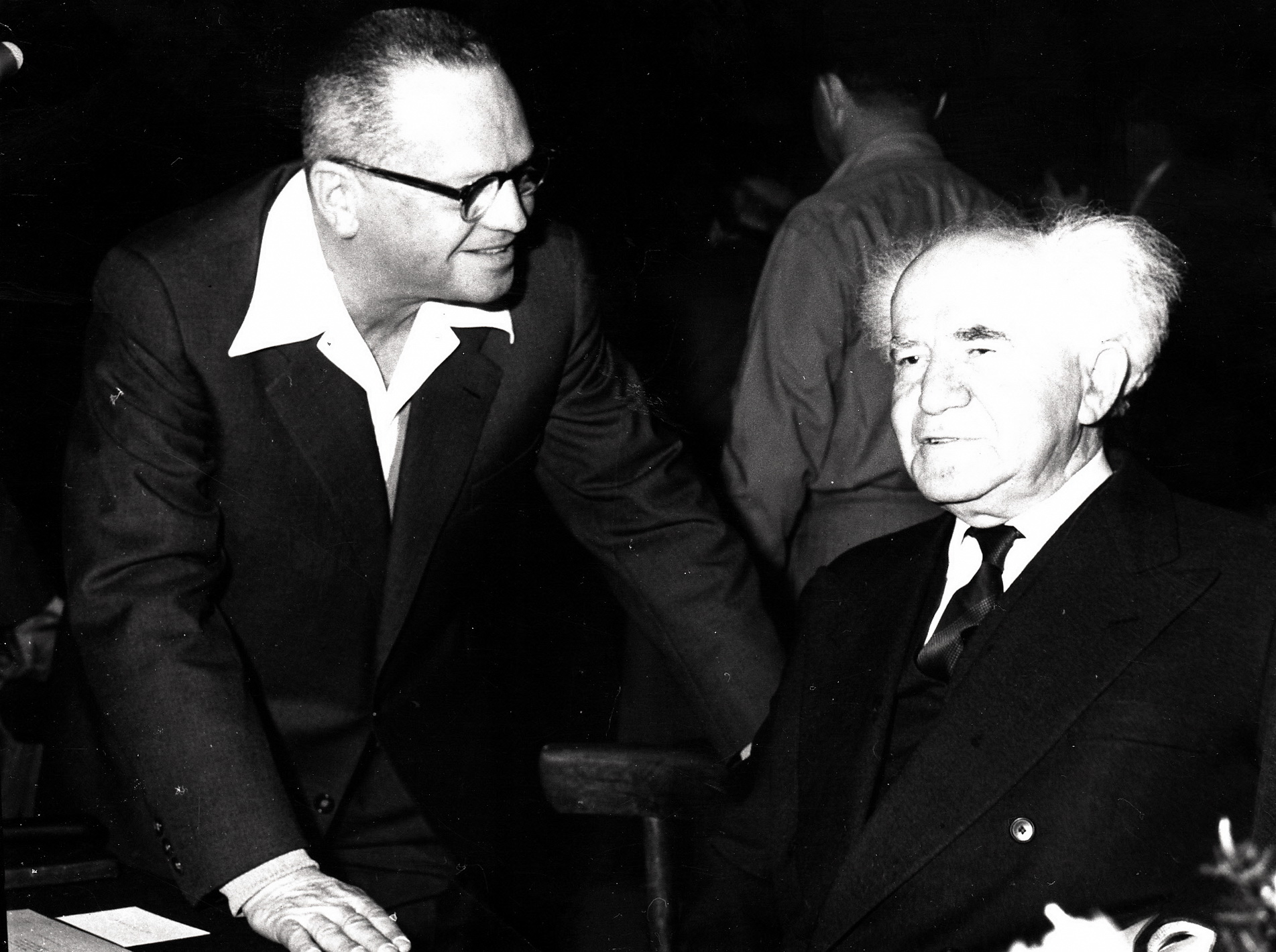 דוד בן גוריון, ראש הממשלה וז. און. וועידת ההסתדרות התשיעית 3.2.1960 תל אביב